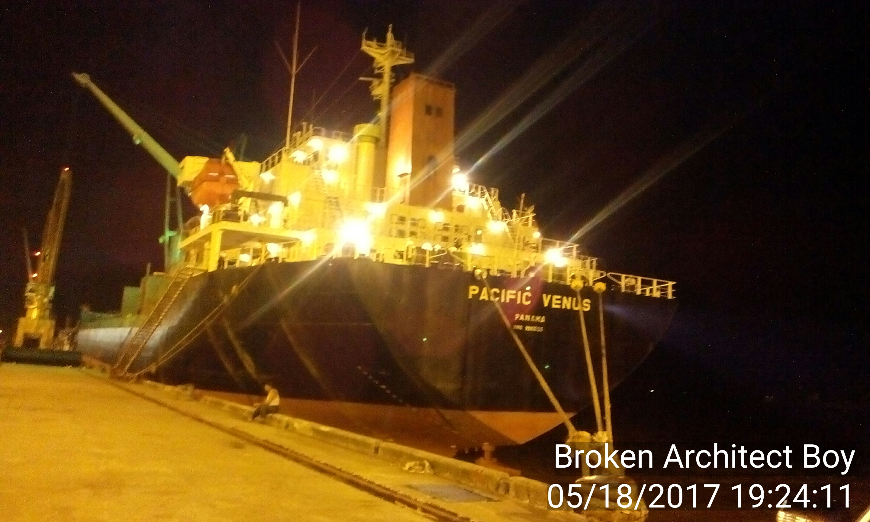 Ship in Mongla Sea Port